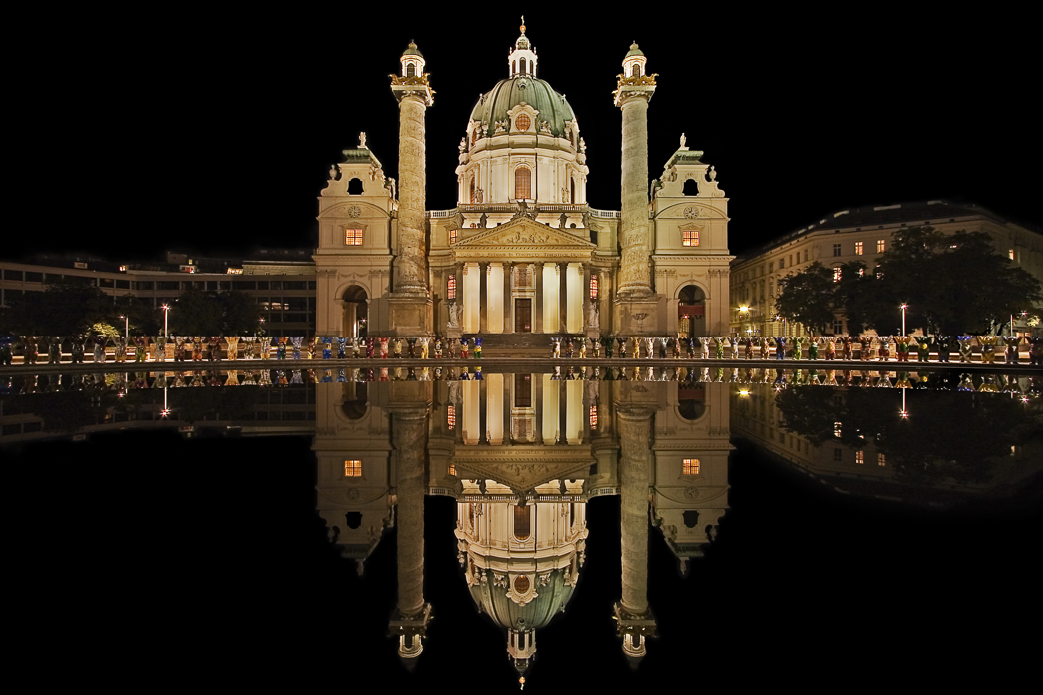 Austria, Vienna, St. Charles's Church